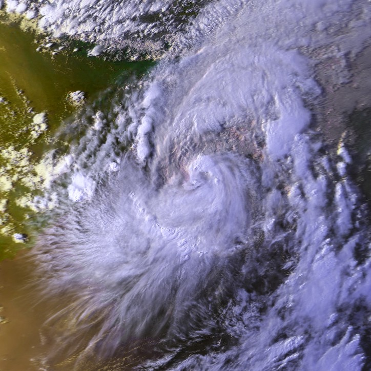 Cyclone Akash on May 14 at approximately 1102 UTC. This image was produced from data from NOAA-15, provided by NOAA.